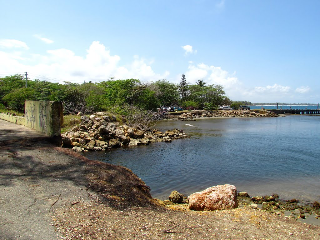 Bridge towards Isla Roque, Palmas Altas, Barceloneta, Puerto Rico